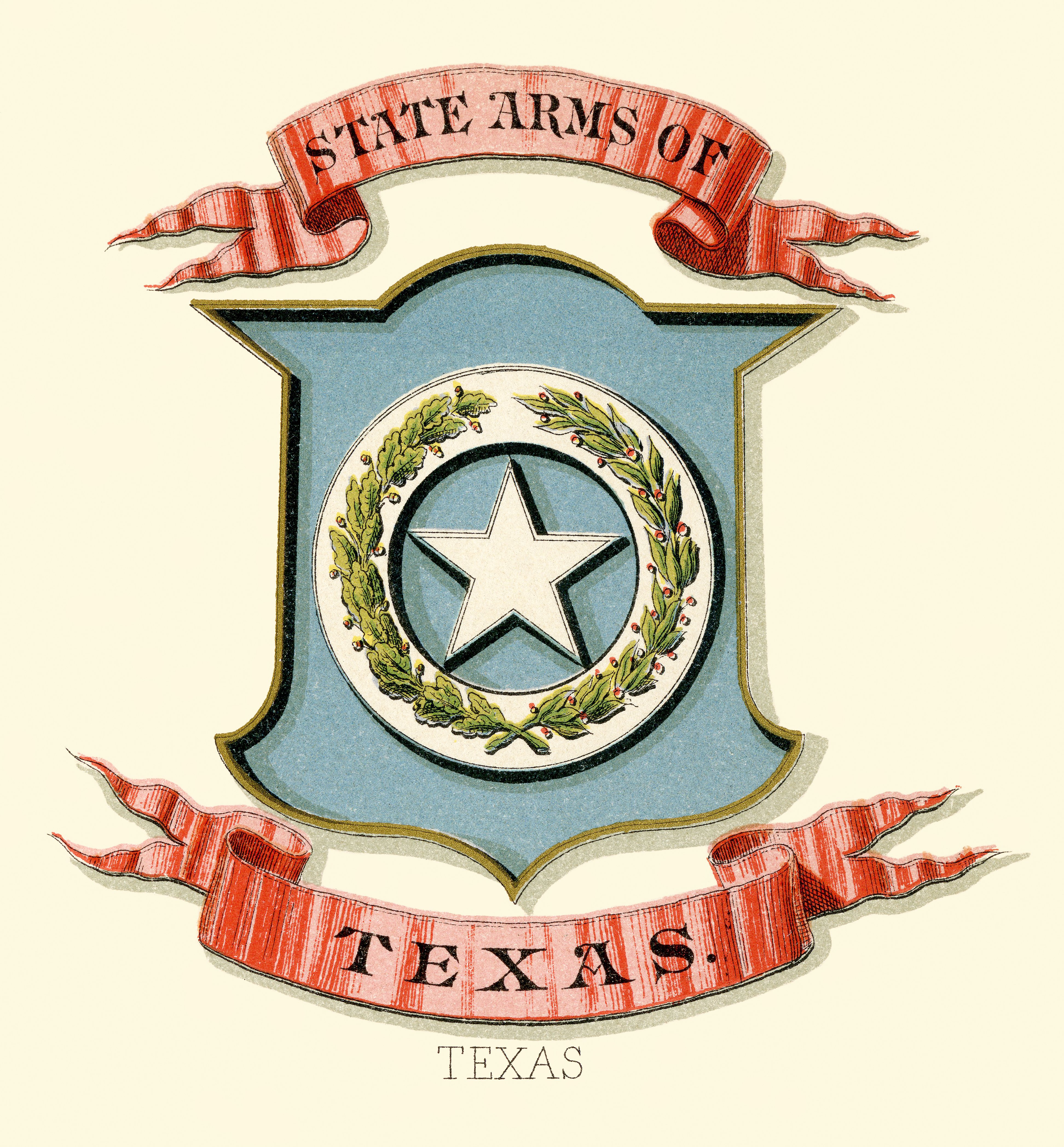 Texas state coat of arms